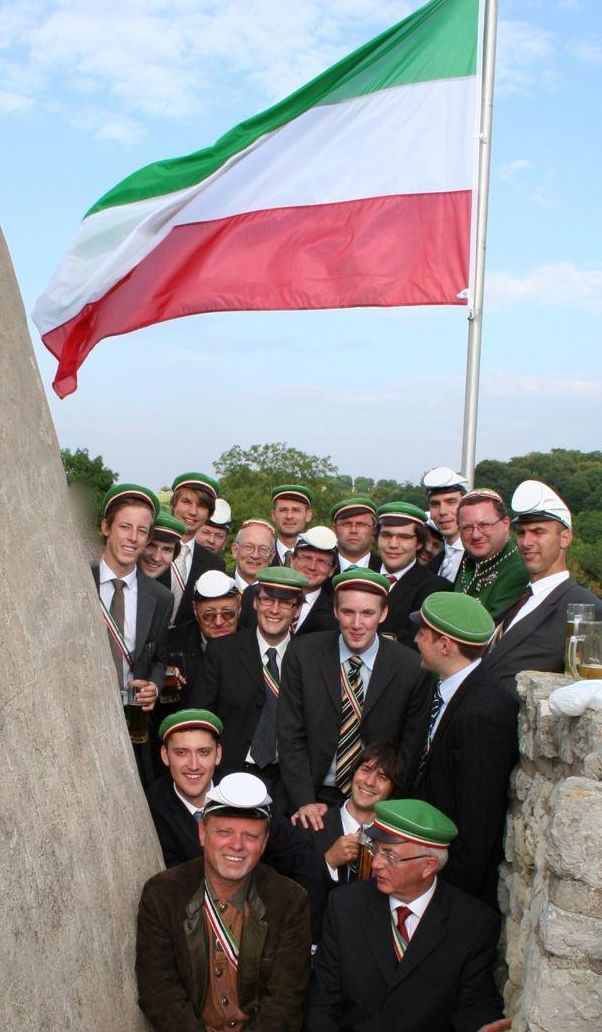 Flag hoisting on the Rudelsburg tower